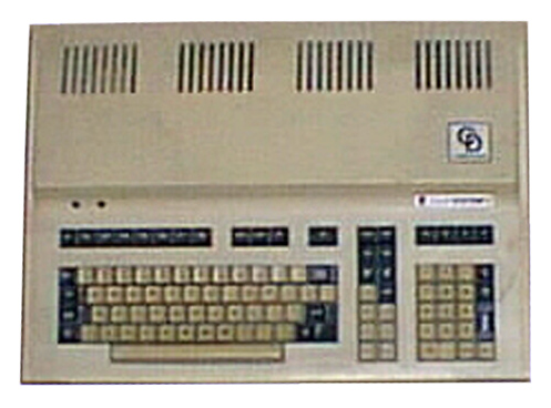 Picture of Tulip System 1 computer. I don't think these computers are made any more.